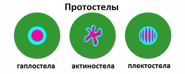 Stelar arrangements among plants with protoseles. Diagram created by B. R. Speer on 20 Nov 2005 using Photoshop Elements. Переделано в пэйнте на русский))